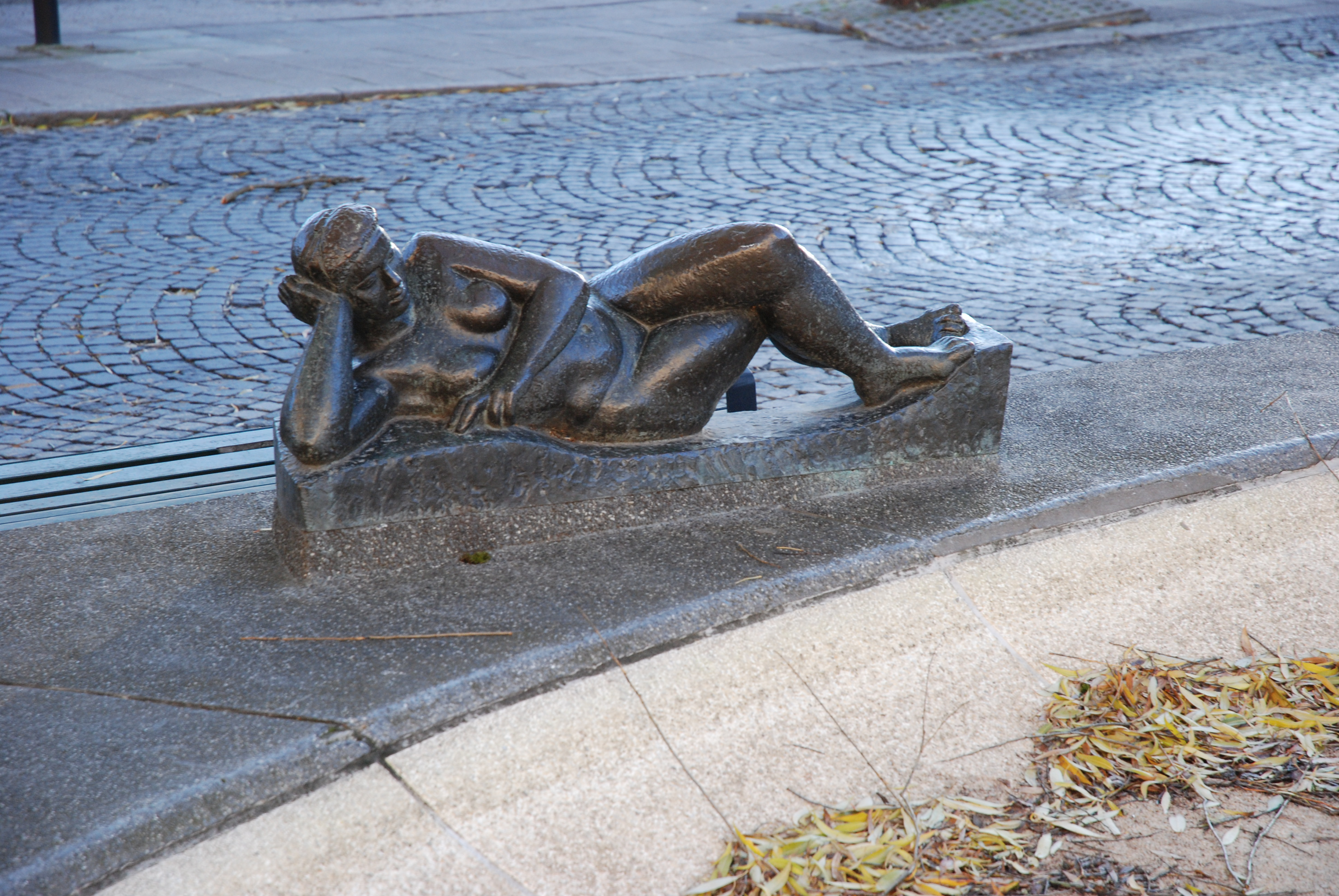 Reclining woman by Eric Grate, Västertorp, Stockholm, Sweden. Bronze sculpture from 1942-52; an early version in terracotta, 95 cm long, is owned by Moderna Museet in Stockholm.